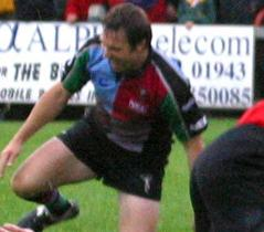 The Winning Try